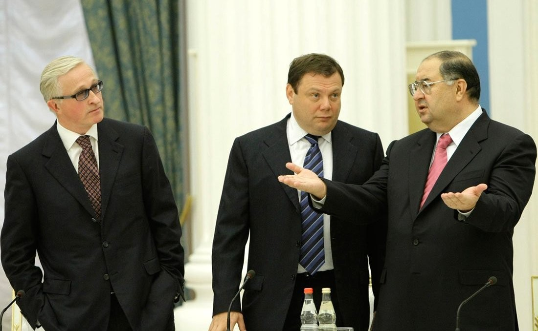 General director of Gazprominvestholding and co-owner of Metalloinvest Alisher Usmanov.